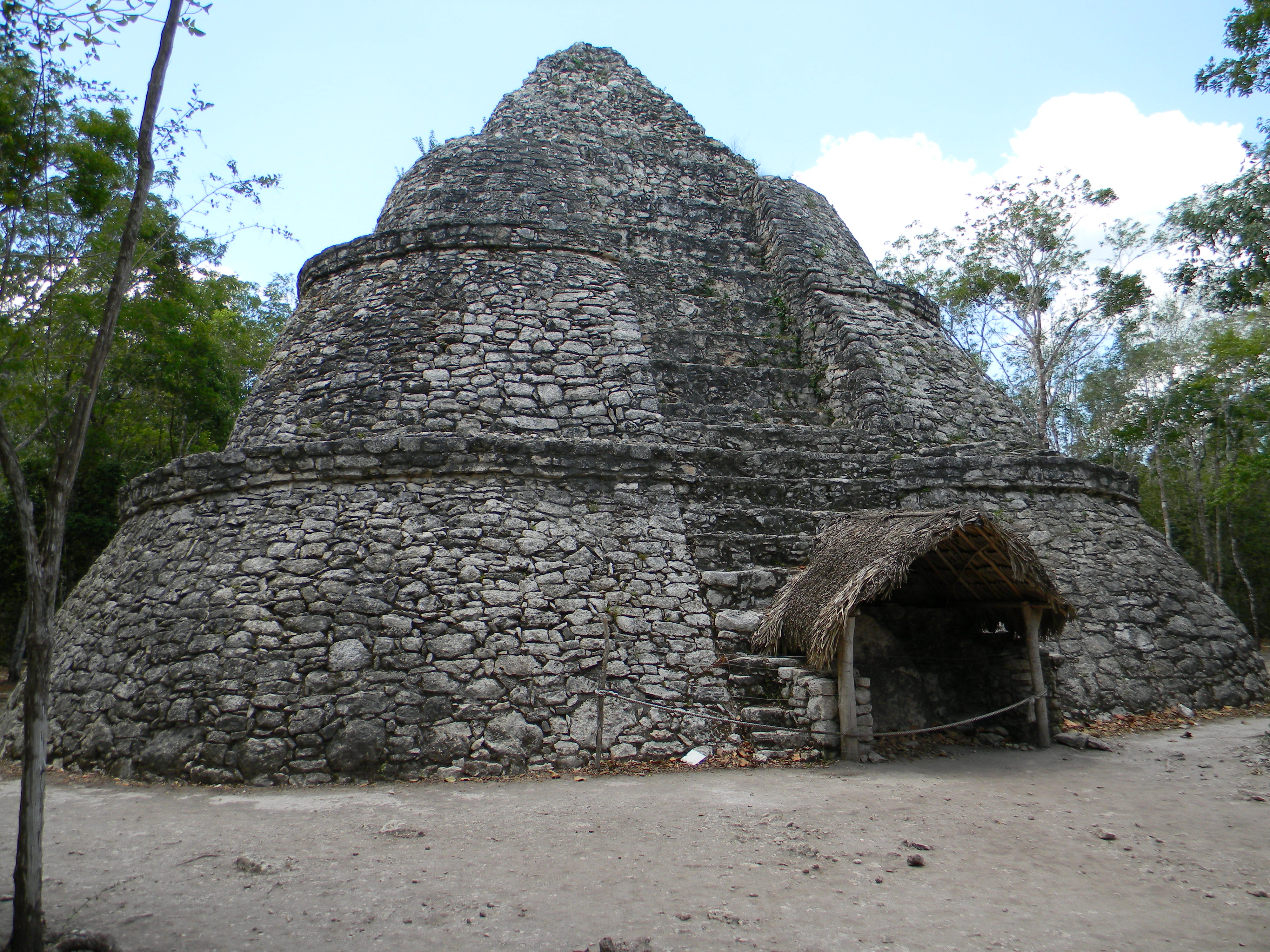 Cobá - Pyramide Xai-bé, front to left side view